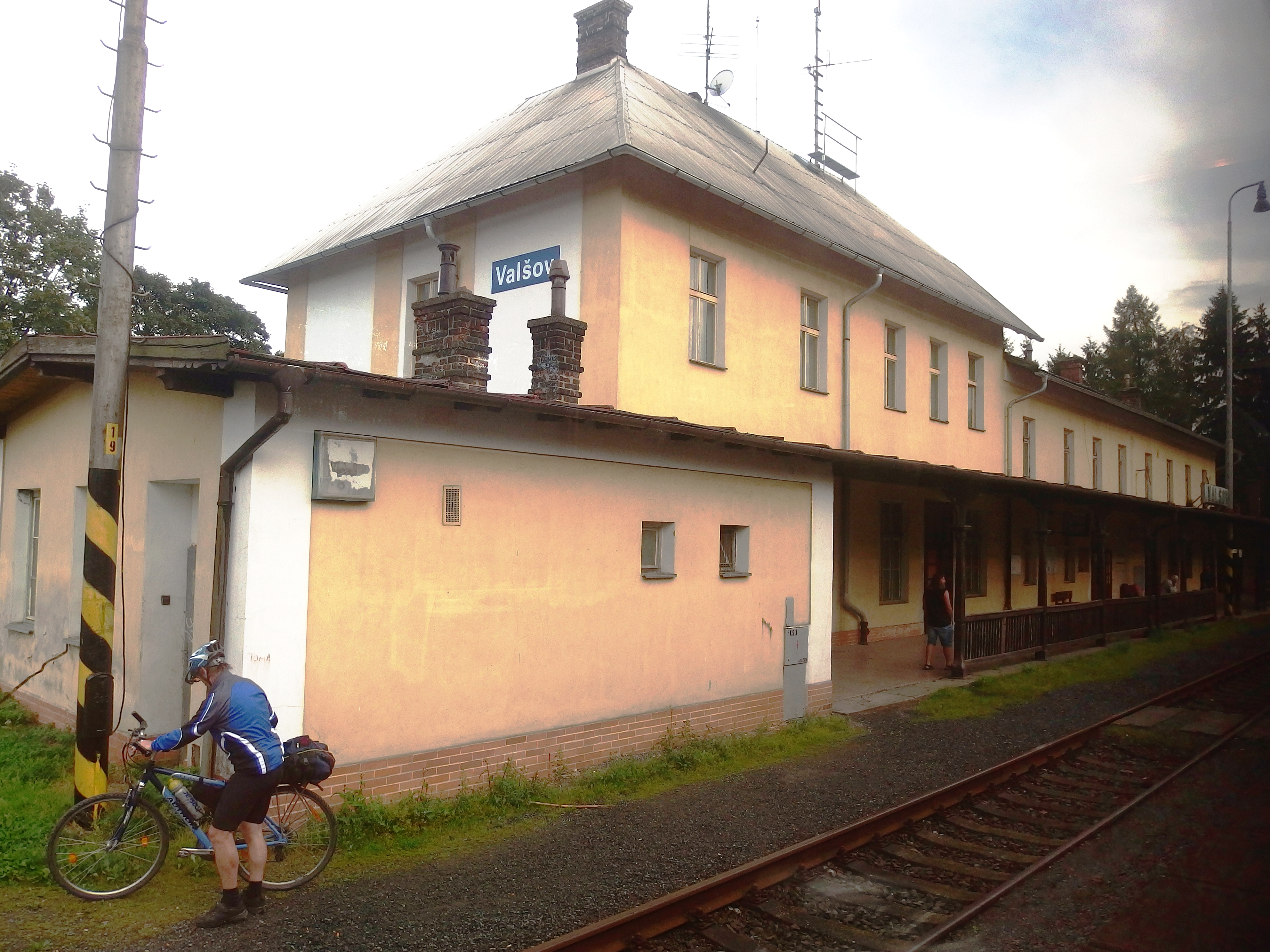 Valšov, Bruntál District, Czech Republic. Train station.